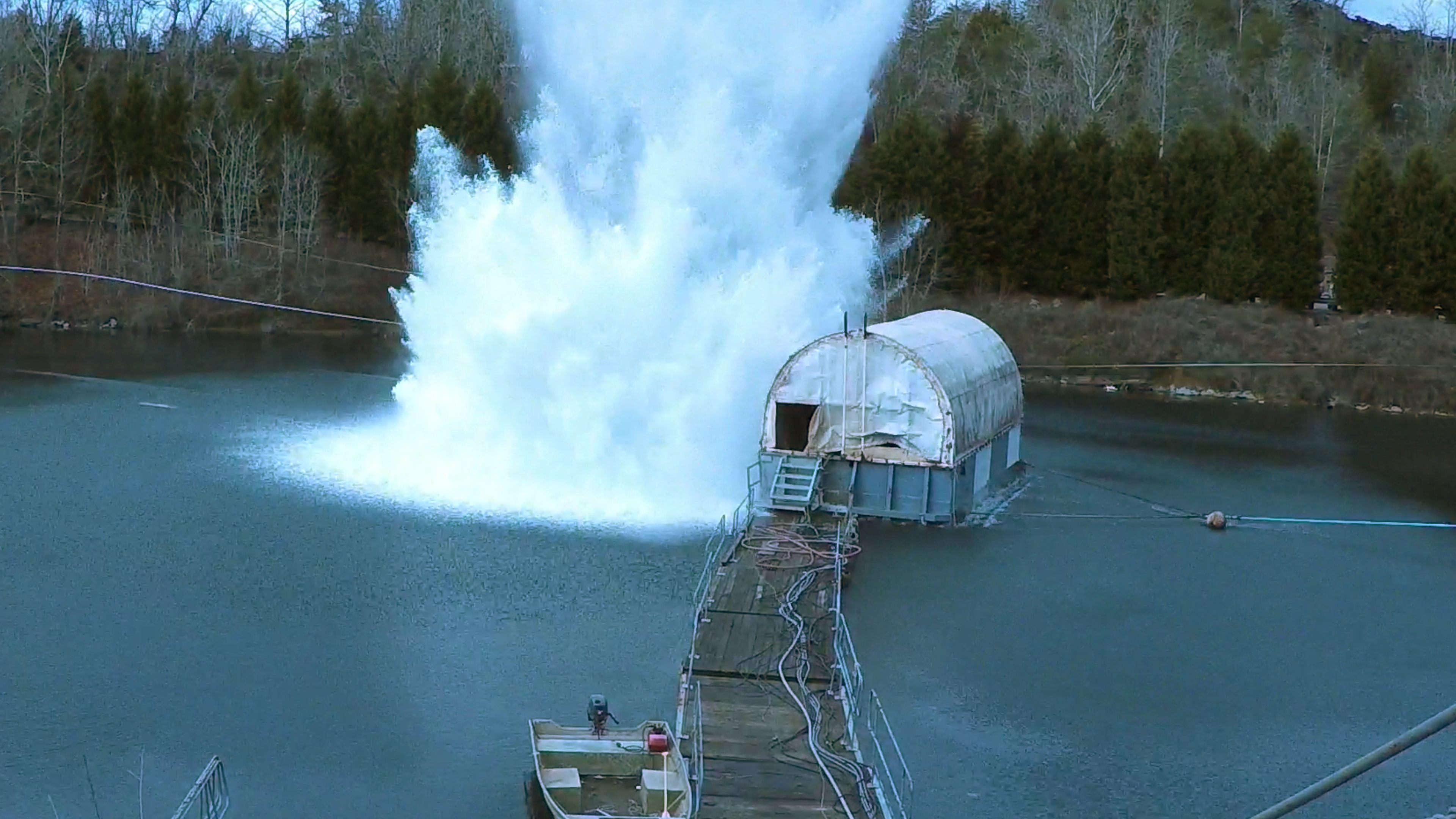 60 lbs of HBX-1 explosive detonated at a depth of 24 feet and 20 feet away from the test barge to qualify equipment for MIL-S-901D.